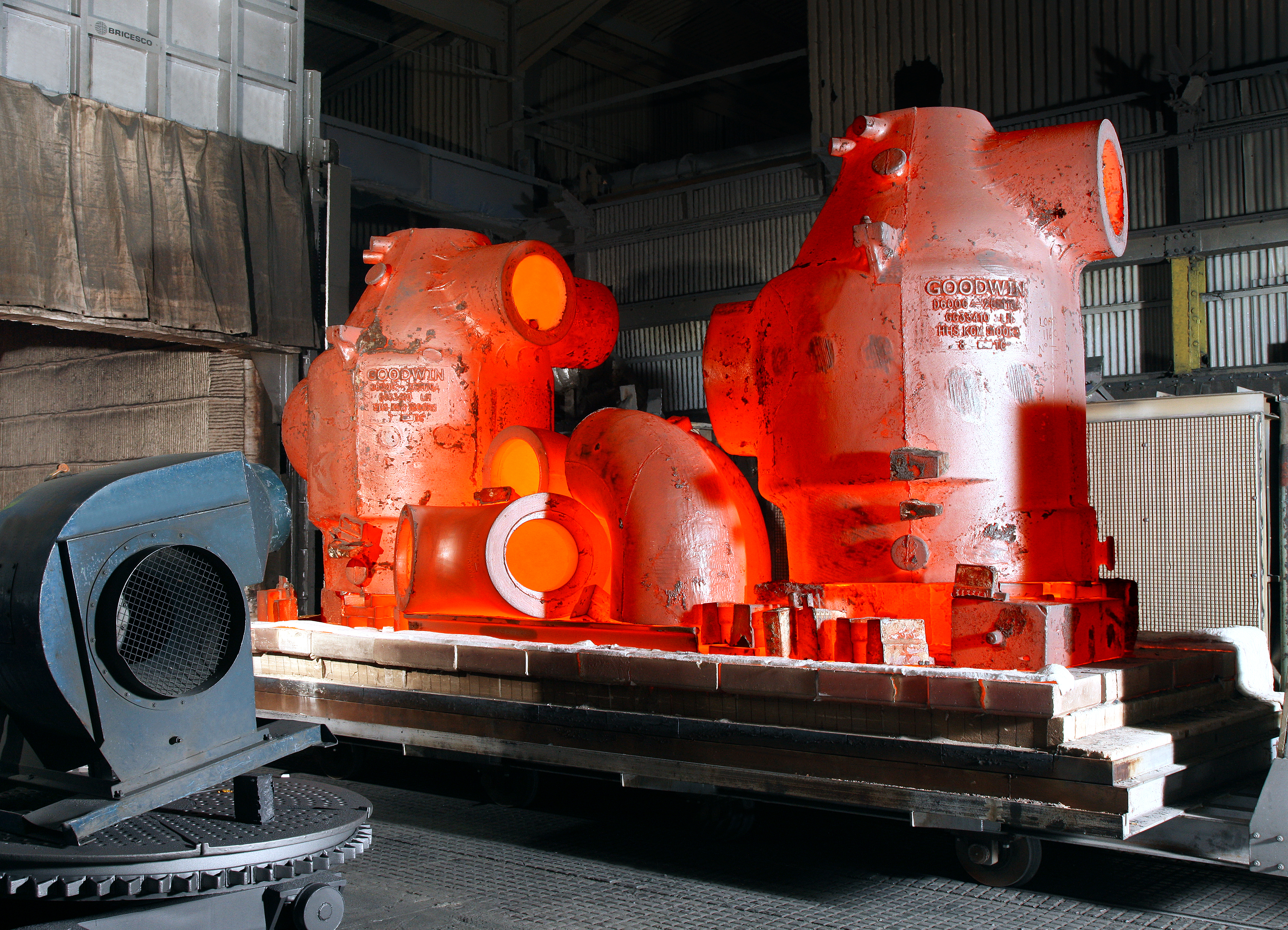 Castings after being heated to 1200C for 12 hours in Goodwin Steel Castings' heat treatment furnace